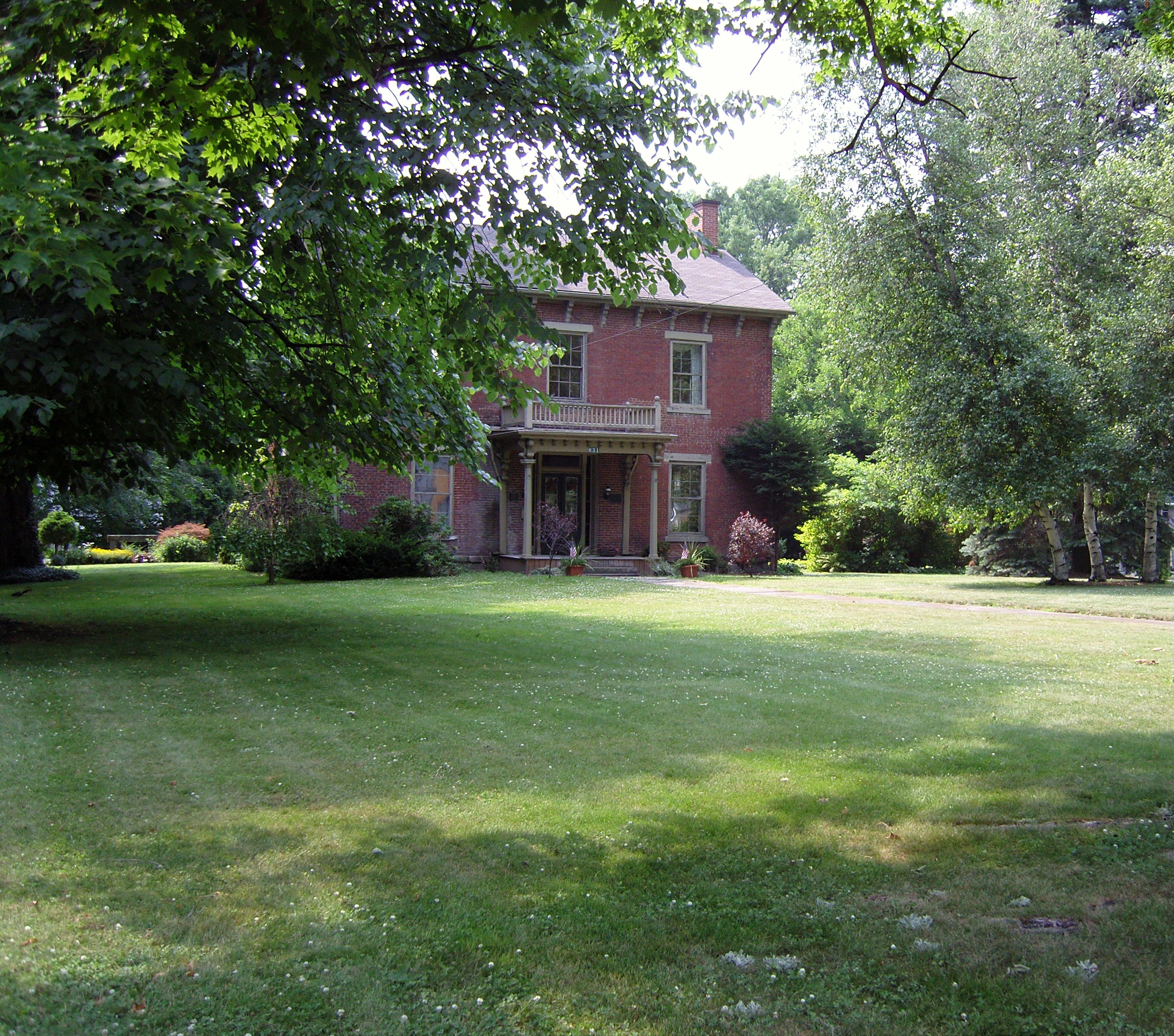 BFDhD (talk) 19:35, 7 August 2008 (UTC)